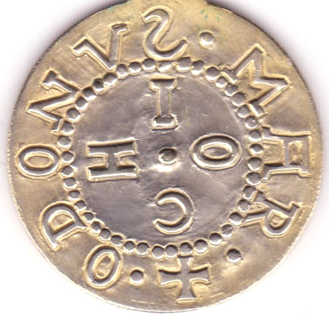 Coin "Marchesano" made in the Zecca of Cortemilia in XIV Century. Recto